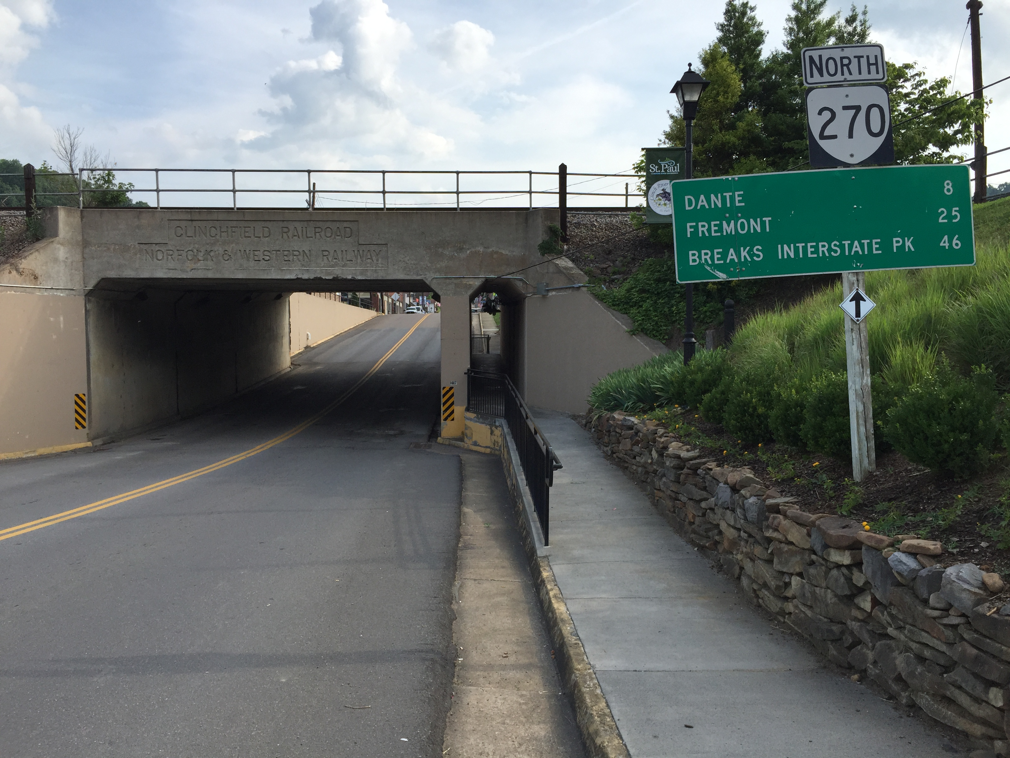 View north along Virginia State Route 270 (4th Avenue) at Riverside Drive in Saint Paul, Wise County, Virginia